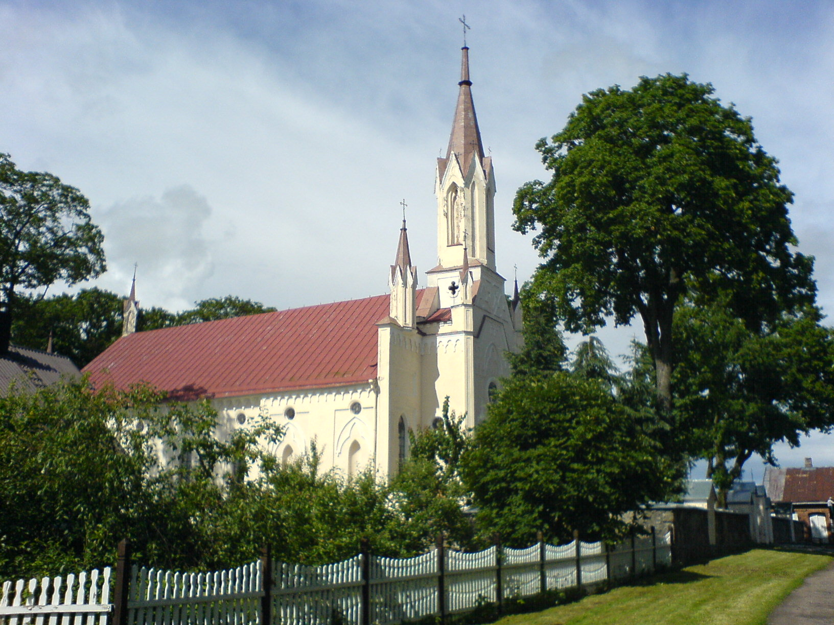 Musninkai church, flank view